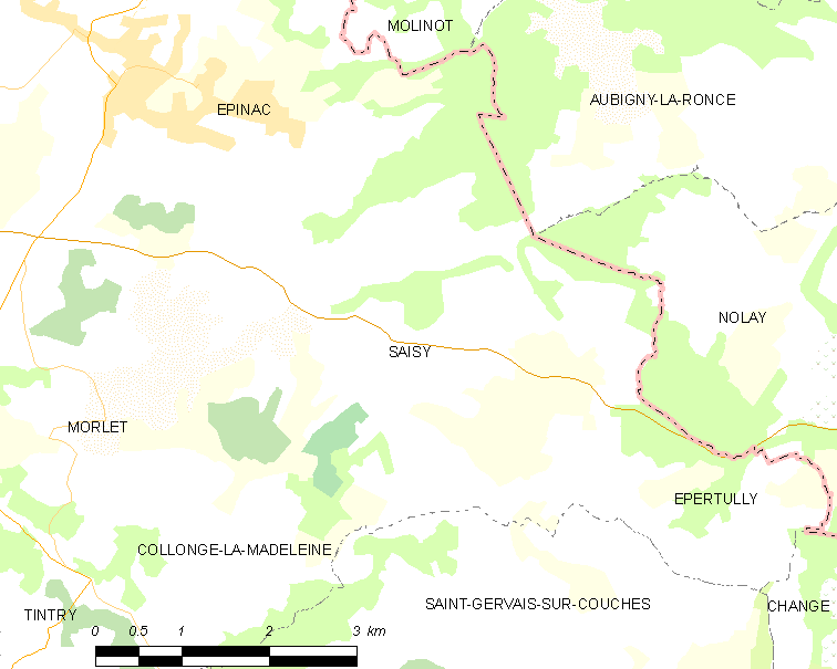 Map of French municipality